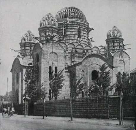 Orthodox Cathedral in Shanghai